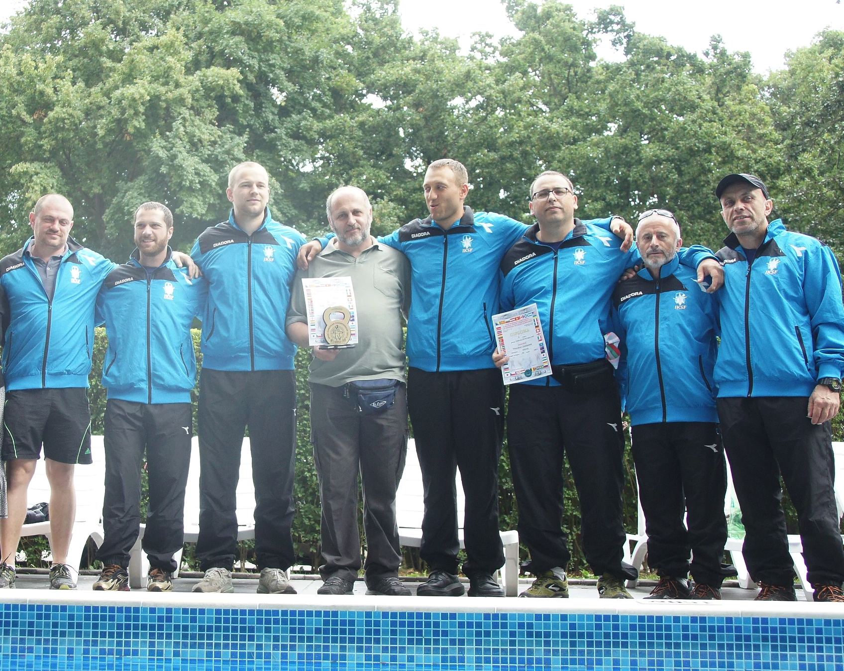 Чать сборной Израиля чемпионате Европы 2015 - Болгария